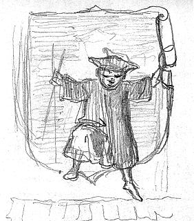 The "Münchner Kindl" (Munich Child) leaves his Coat of Arms